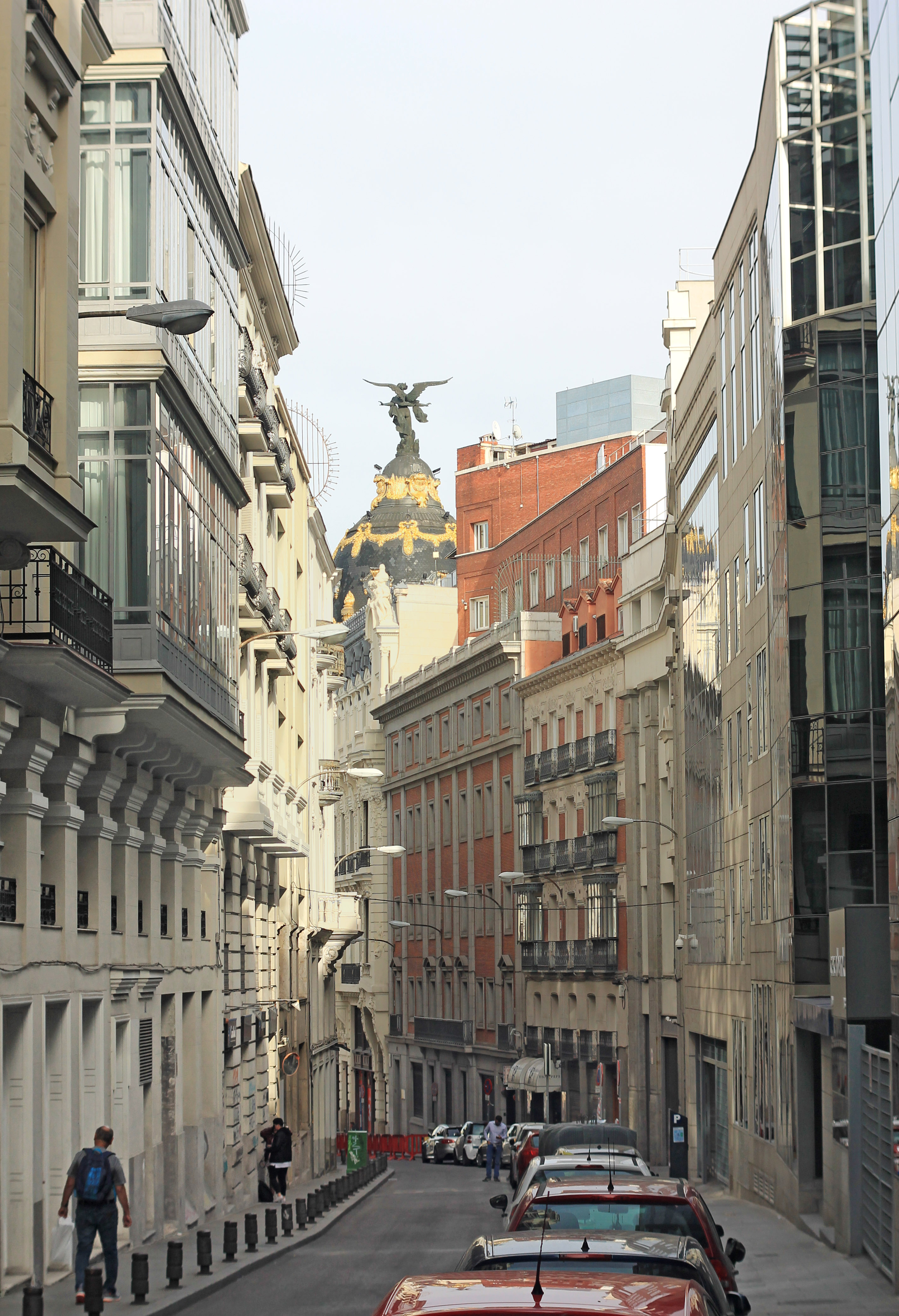 View from Calle del Caballero de Gracia (street) in Madrid (Spain).